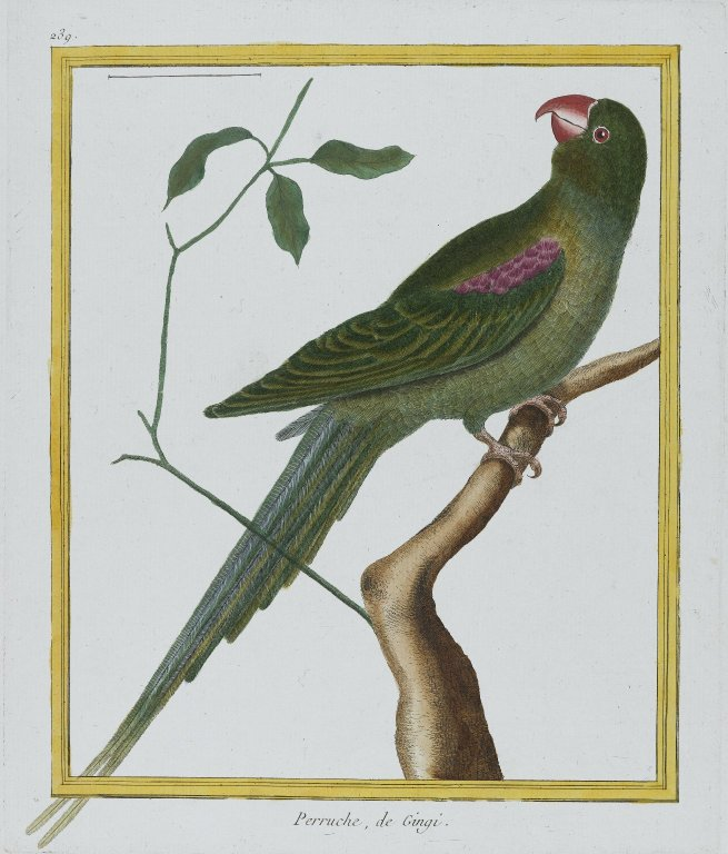 Painting of a Alexandrine Parakeet